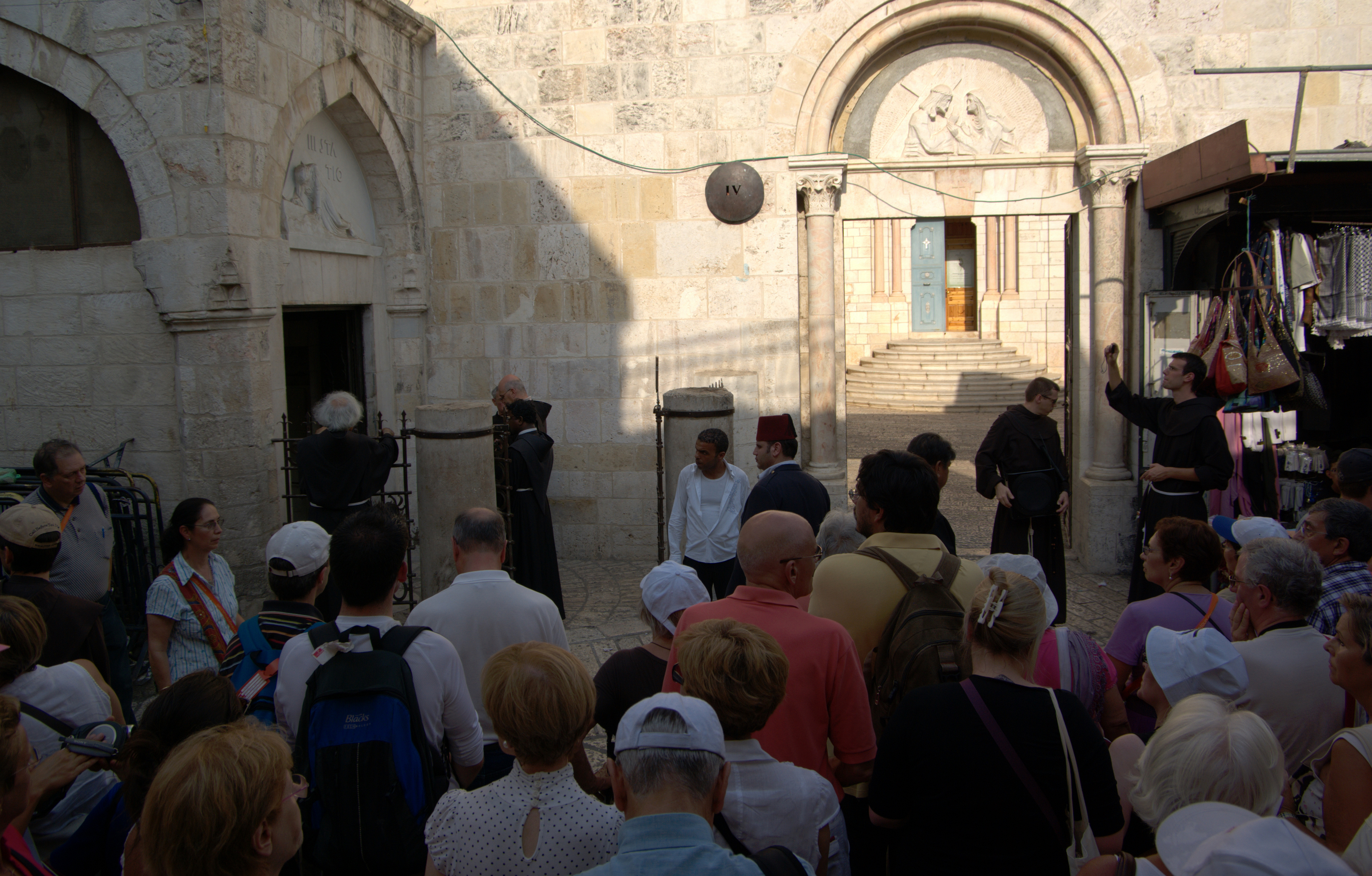 Jerusalem, Via Dolorosa, Station III and IV